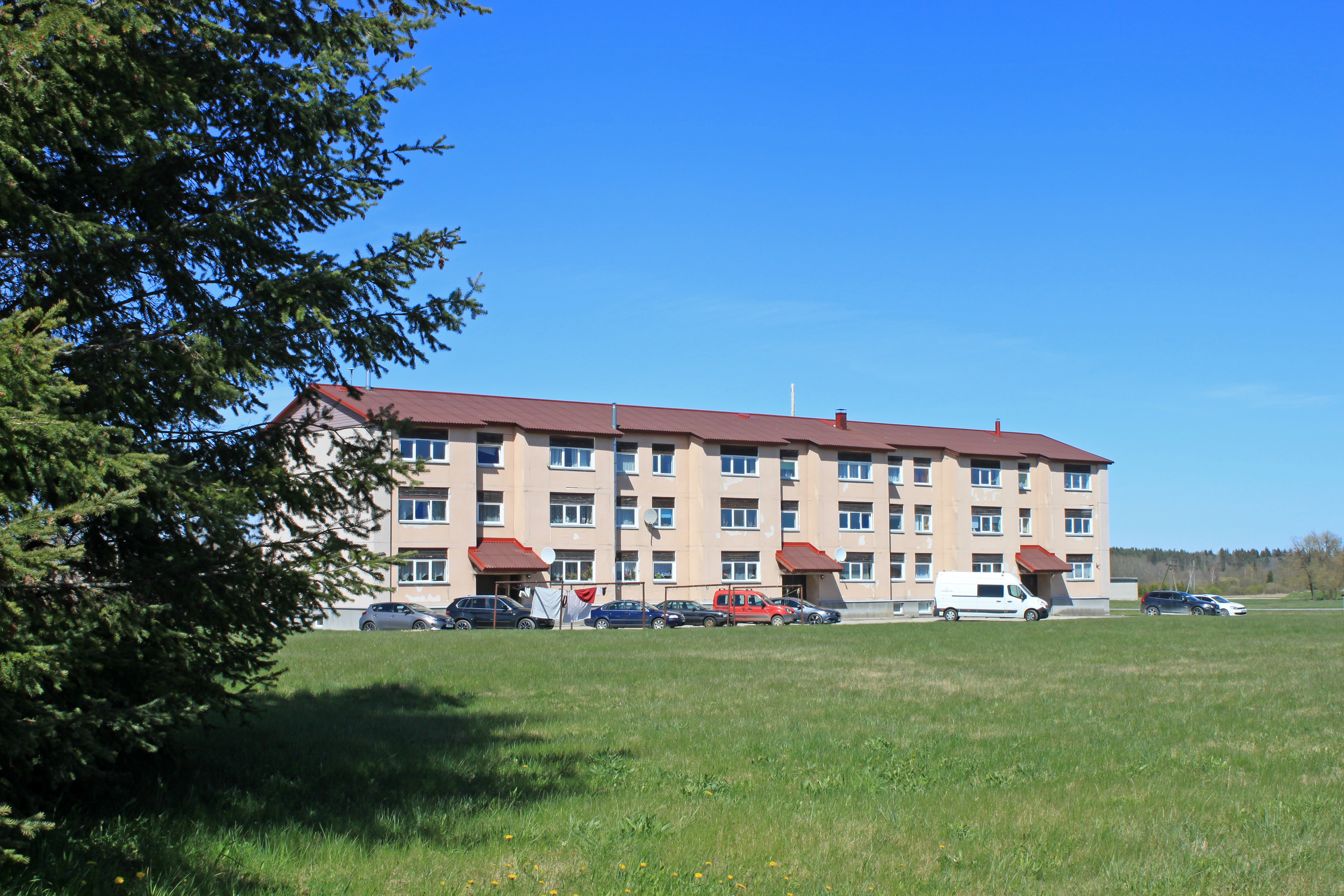 Tuultepesa street, Jäneda village, Estonia